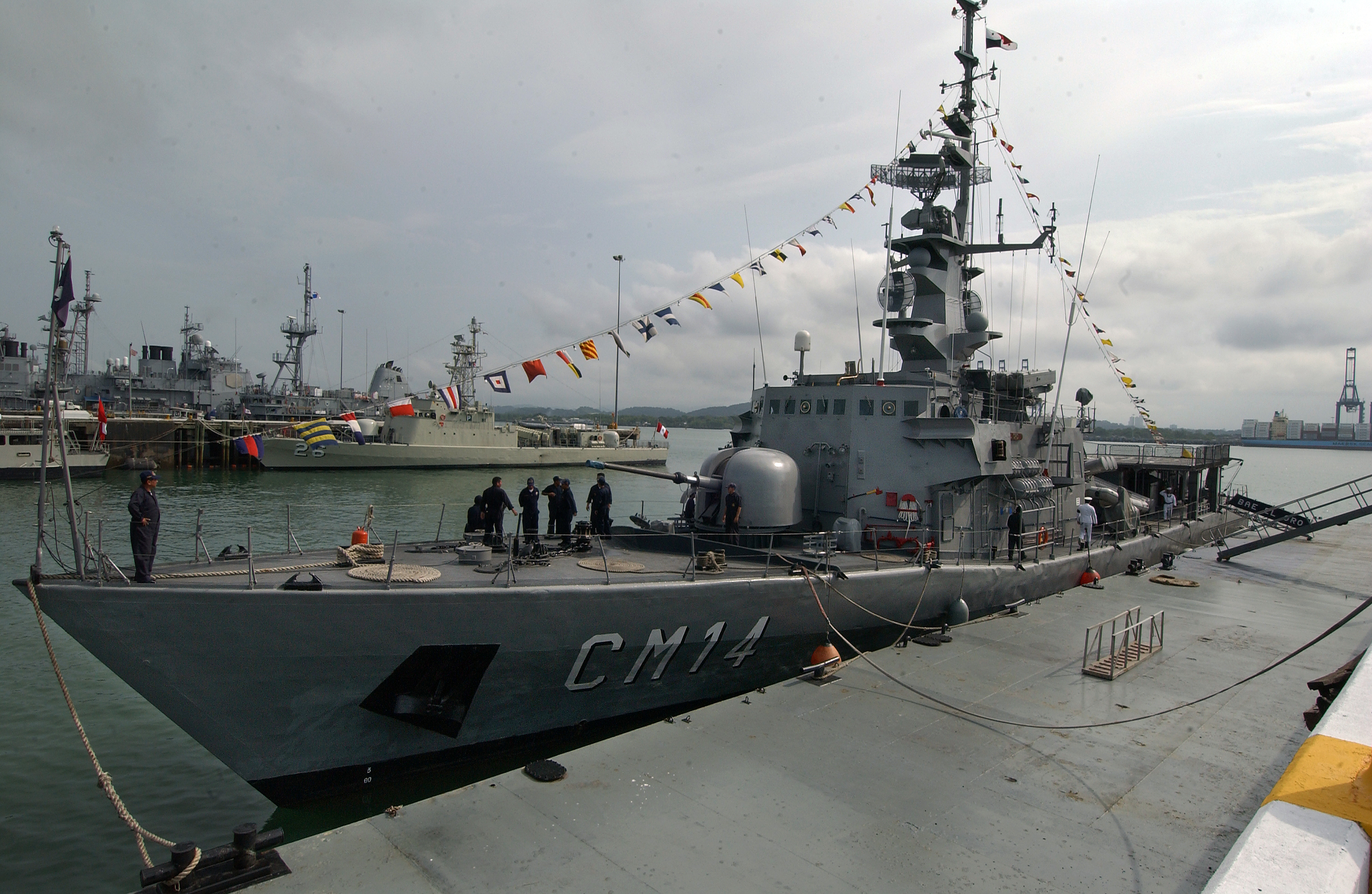 Panama City, Panama (Aug. 7, 2005) - The Ecuadorian corvette BAE El Oro (CM 14) sits pier side in Panama City, Panama before beginning at sea exercises during PANAMAX 2005. PANAMAX is a training exercise in defense of the Panama Canal involving 15 countries. The Panama Canal is critical to the free flow of trade and goods in the Western Hemisphere and the entire world. The region's economy and stability largely depend on the safe transport of several hundred million tons of cargo that transit through the canal every year.